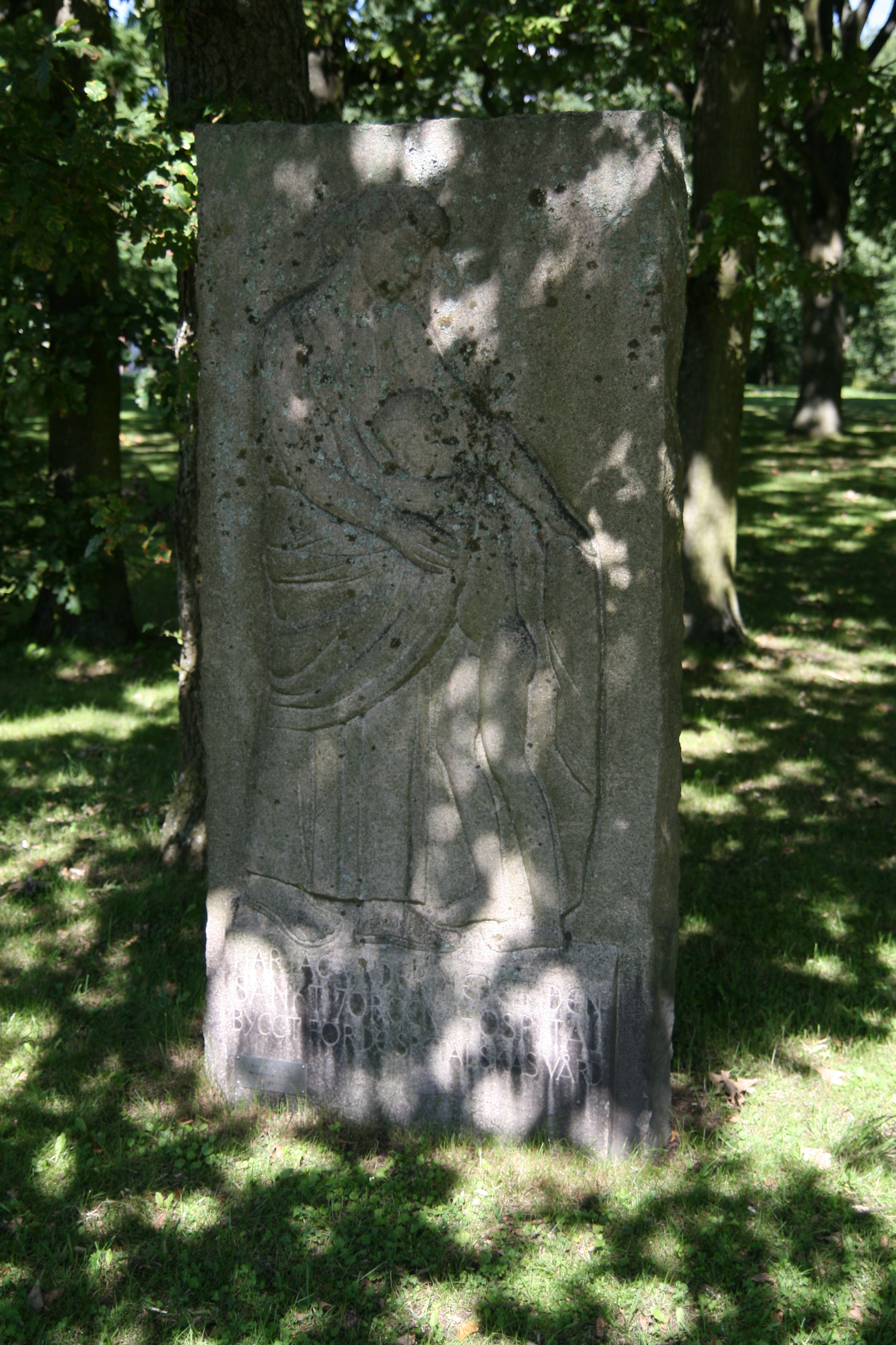 The memorial of the medieval leper hospital in Sankt Jörgens park in Lund, Sweden, created in 1953 by Axel Wallenberg. The inscription reads Här låg under medeltiden Sankt Jörgens hospital, byggt för de spetälskas vård (Here laid during the medieval times Sankt Jörgen's hospital, built for the care of the lepers).